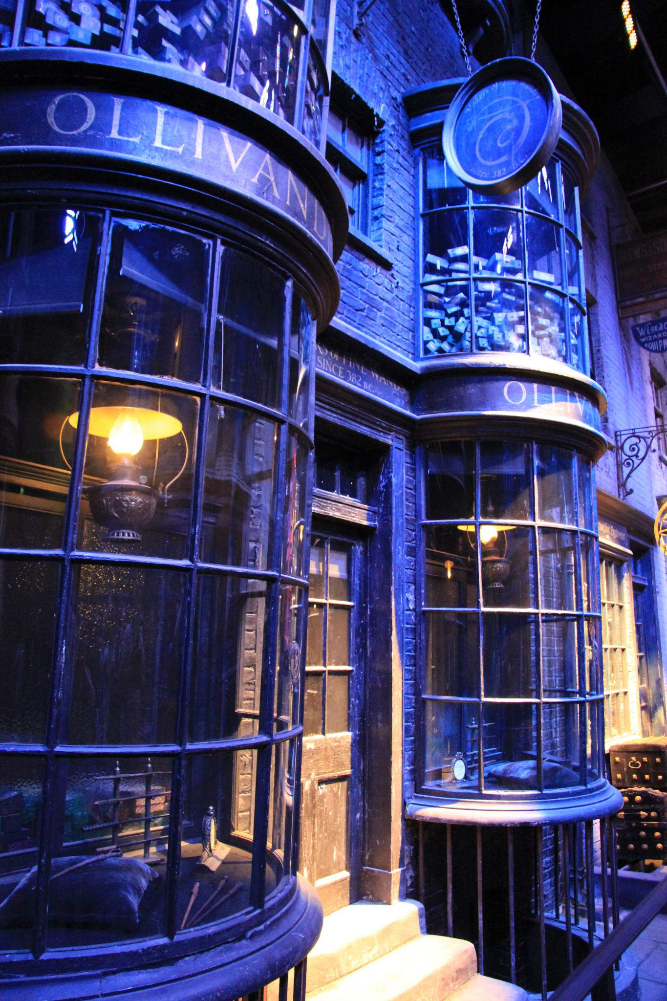 Warner Bros. Studio Tour London: The Making of Harry Potter.